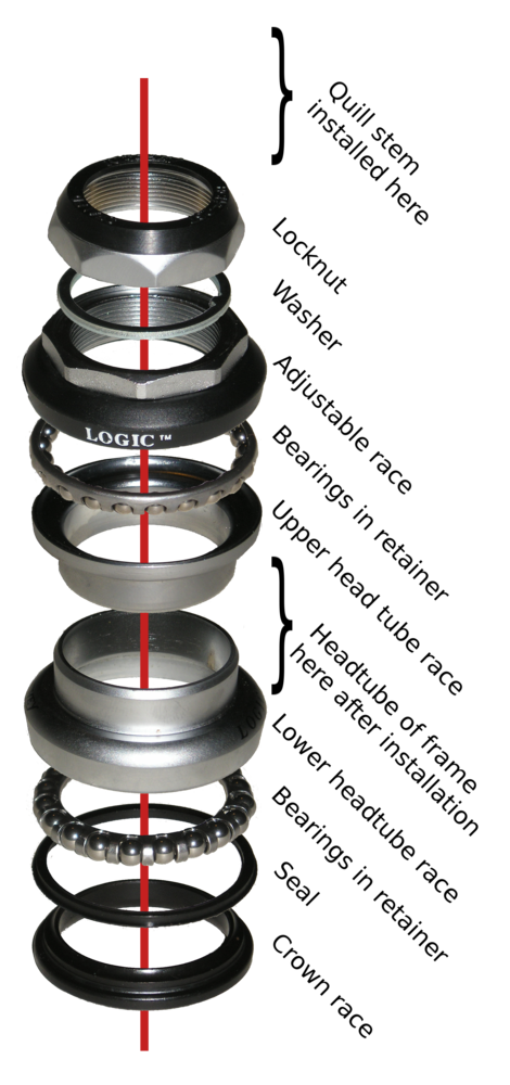 An exploded view of a 1 1/8" threaded bicycle headset, with labels in English.